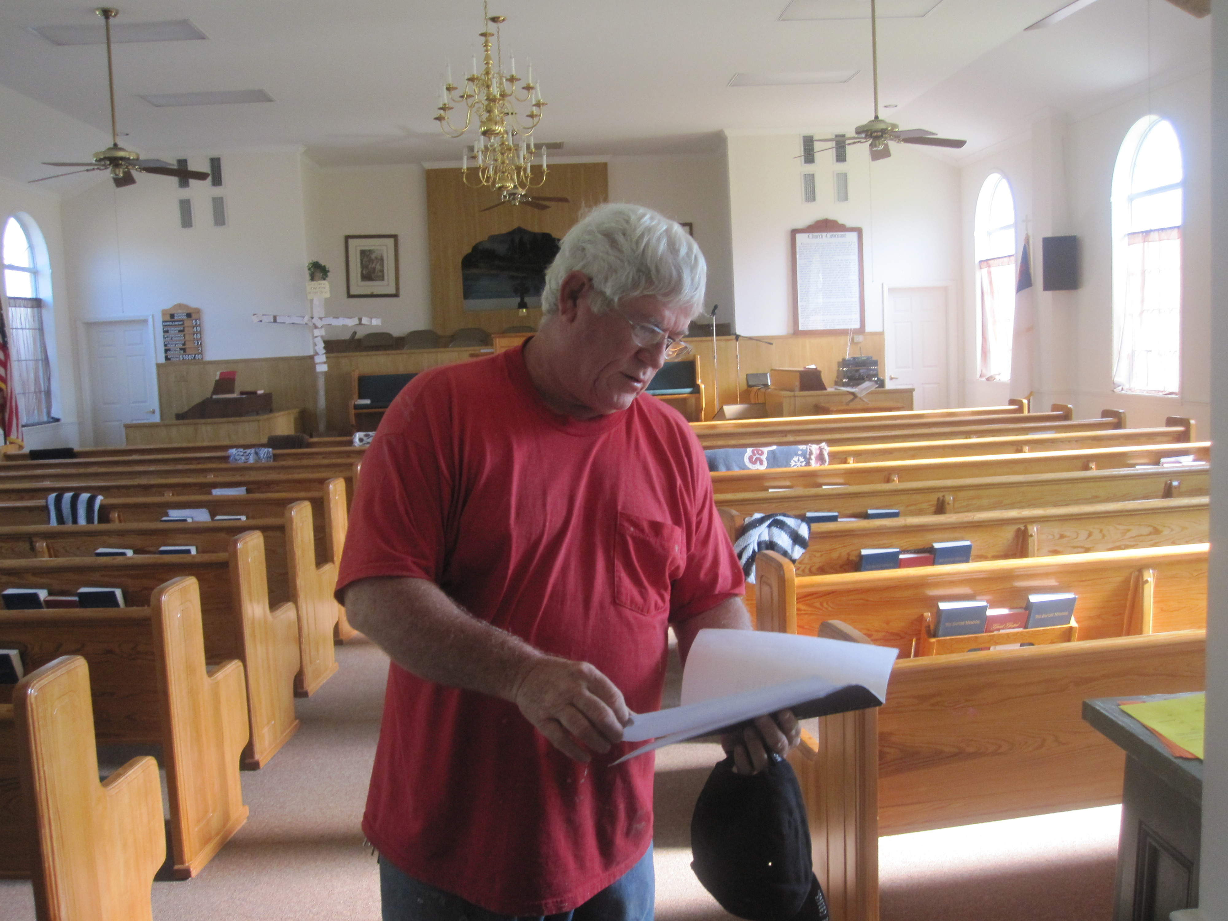 Inside of Clarence Baptist Church, Clarence, LA